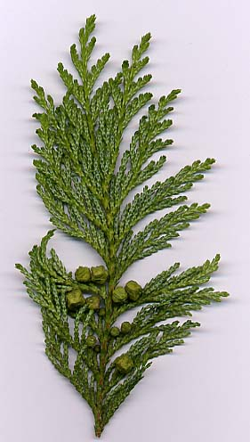 Sawara Cypress foliage and cones